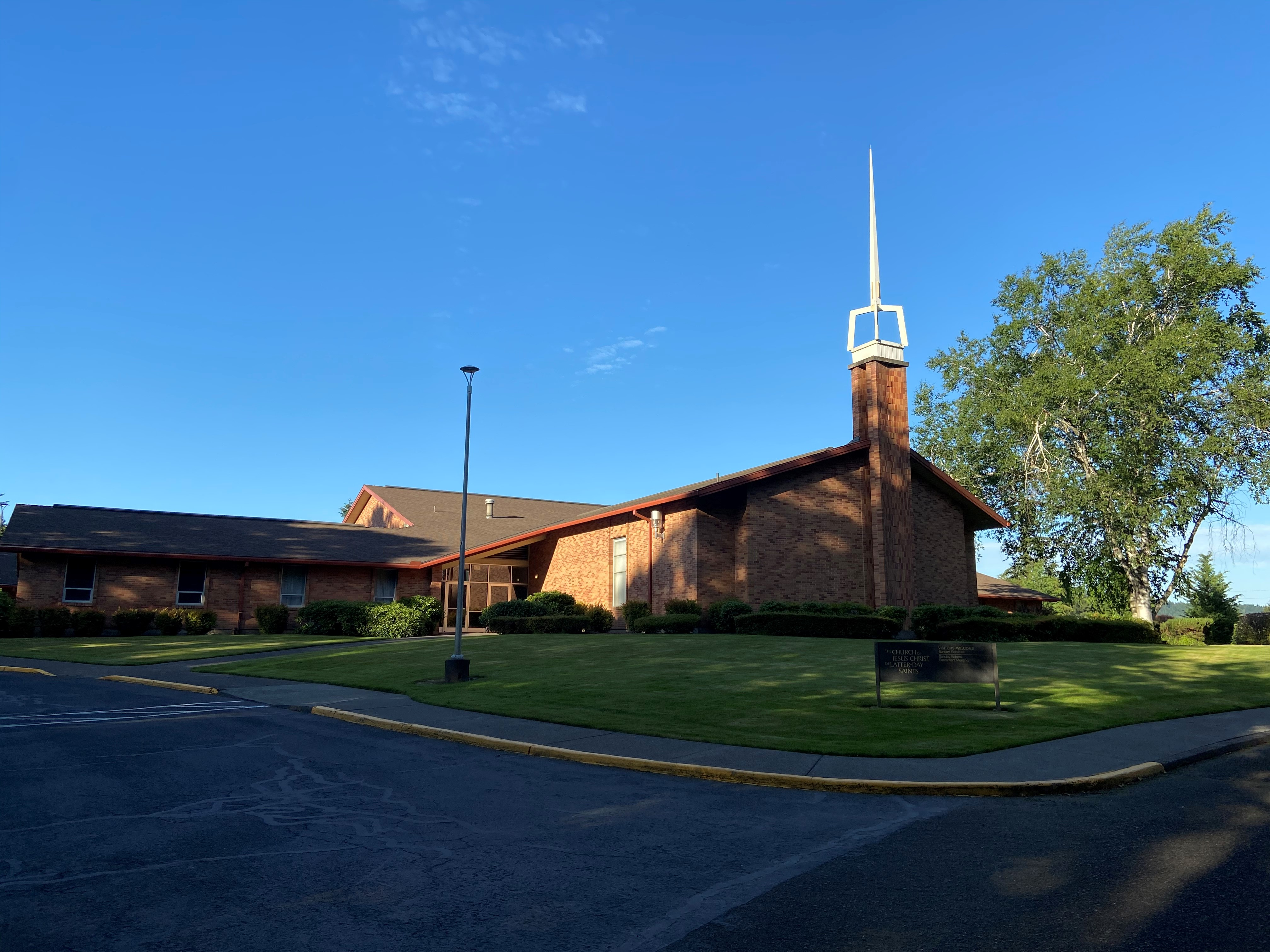 A Meetinghouse of The Church of Jesus Christ of Latter-day Saints on Ruscliff Road in Milwaukie, Oregon.